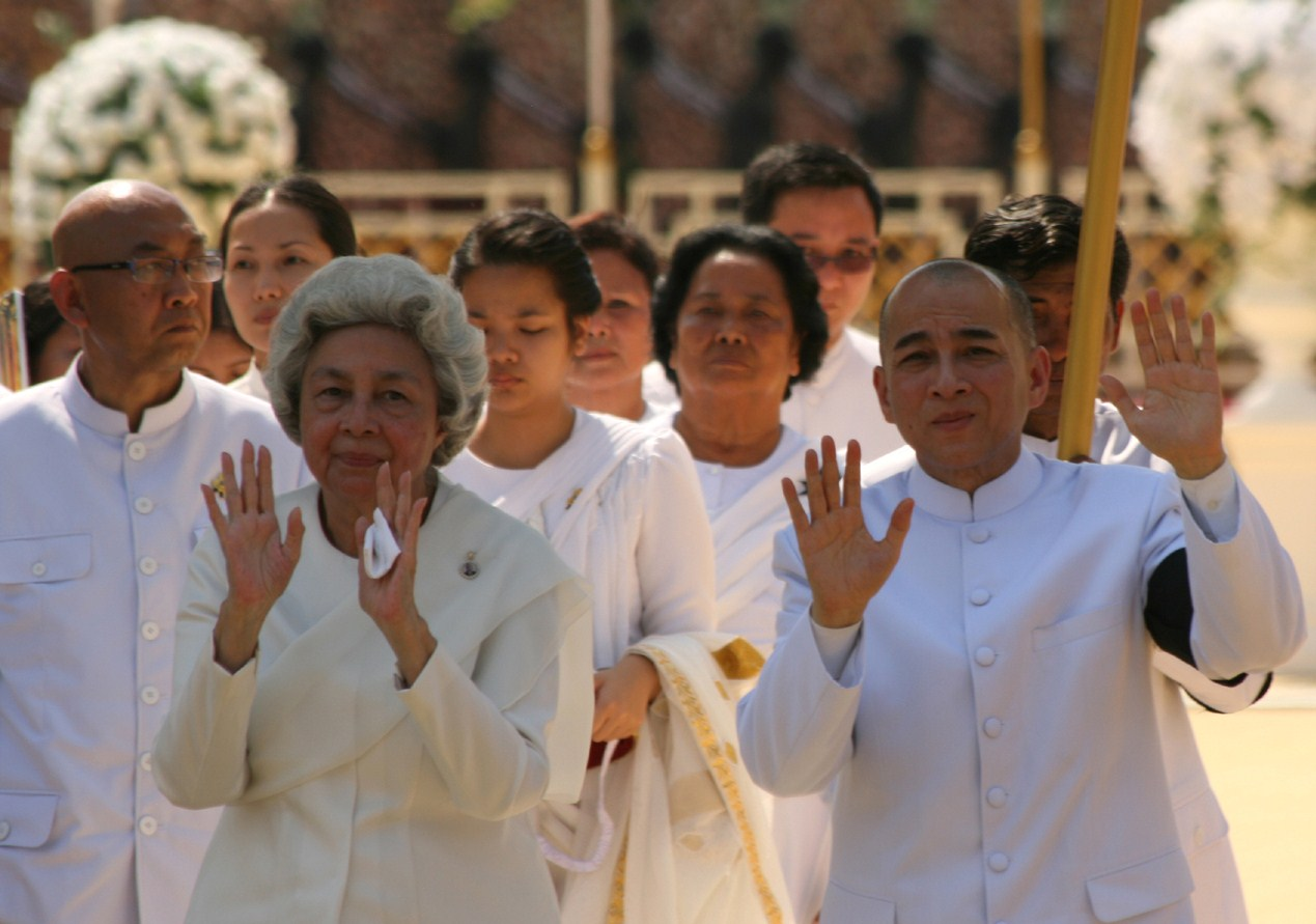 King Norodom Sihamoni of Cambodia and Queen Norodom Monineath, his mother, the last wife of the late King Norodom Sihanouk